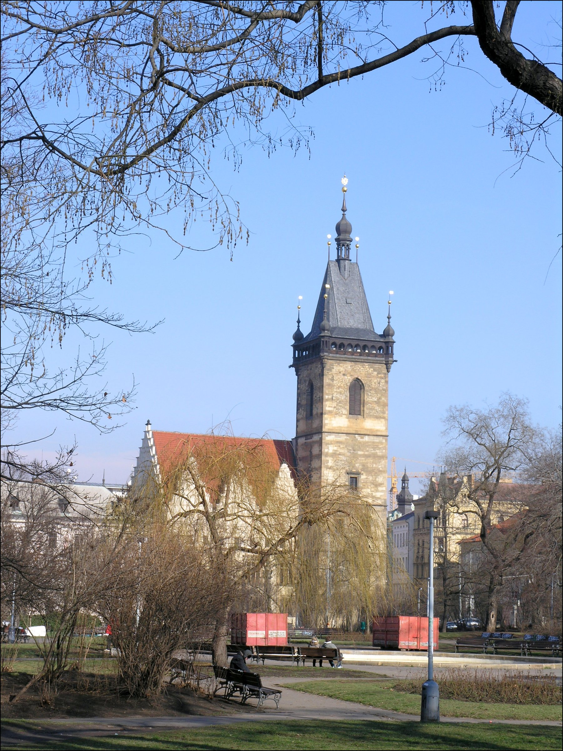 New Town hall, Prague